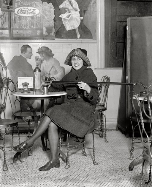 February 13, 1922. Washington, D.C. "Unidentified woman." Holding a "tipping cane" also known as a "cane flask" during Prohibition.